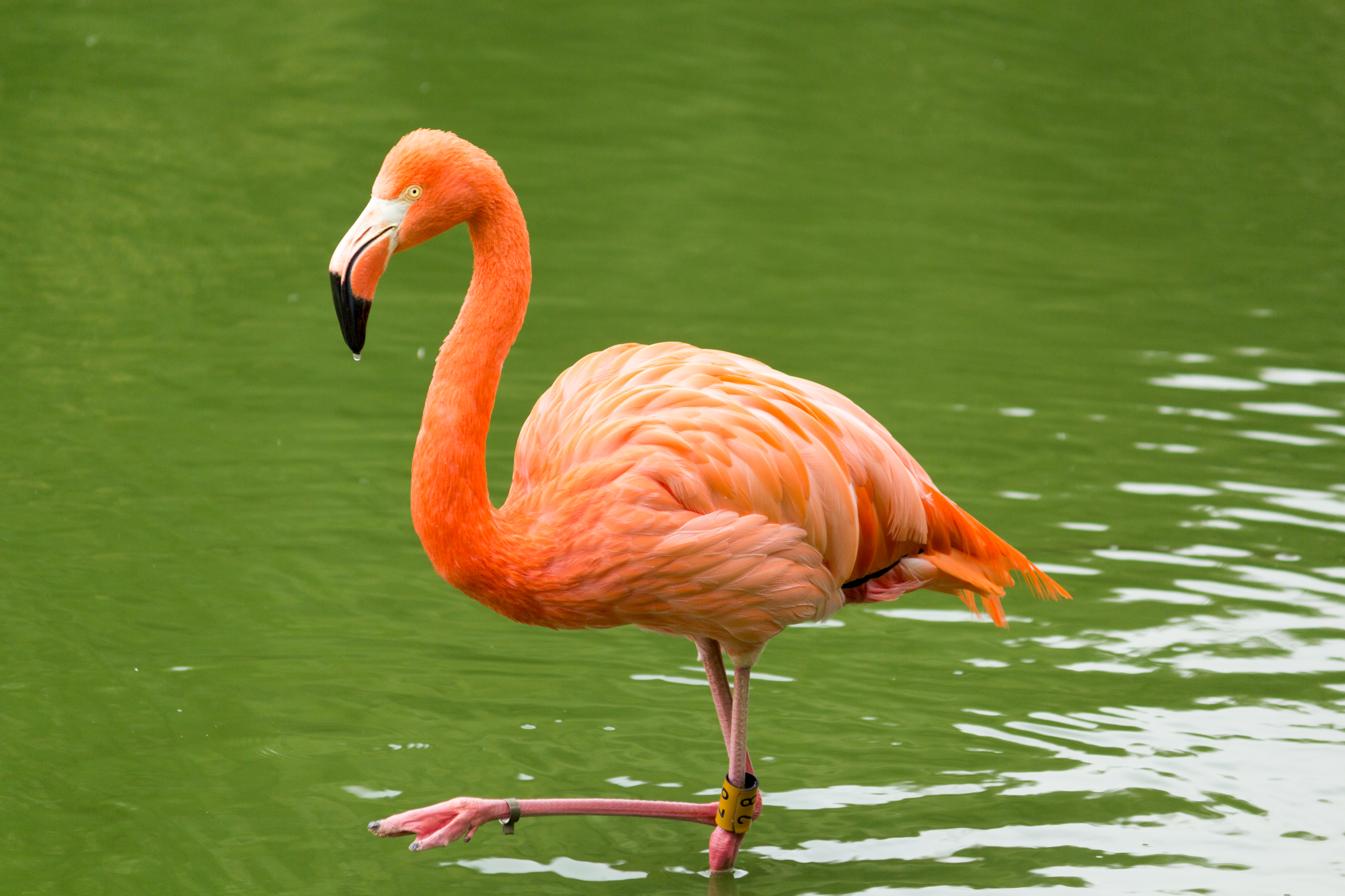 Rosy flamingo (Phoenicopterus ruber) in Whipsnade Zoo.